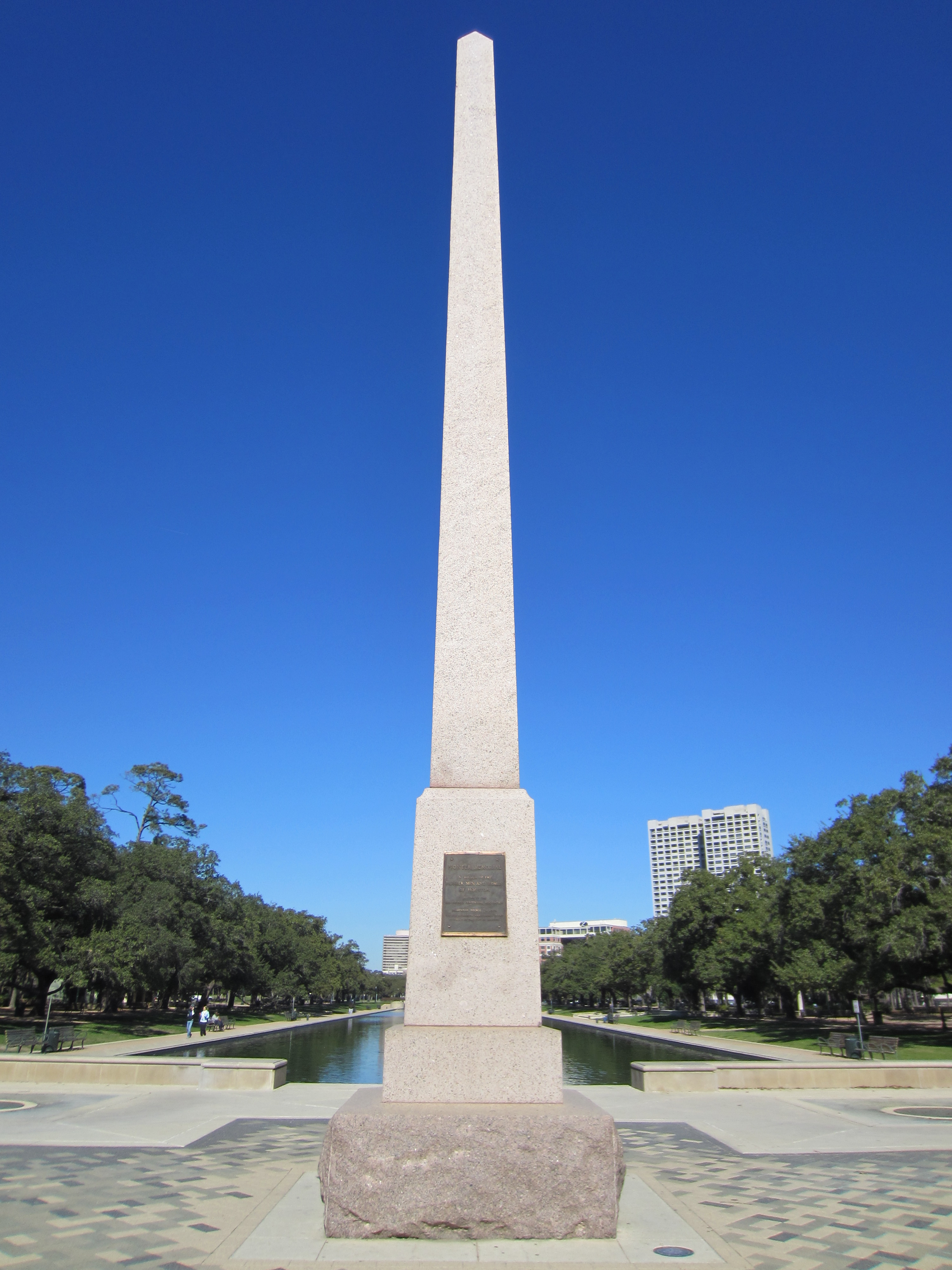 Pioneer Memorial at Hermann Park in Houston, Texas in January 2012